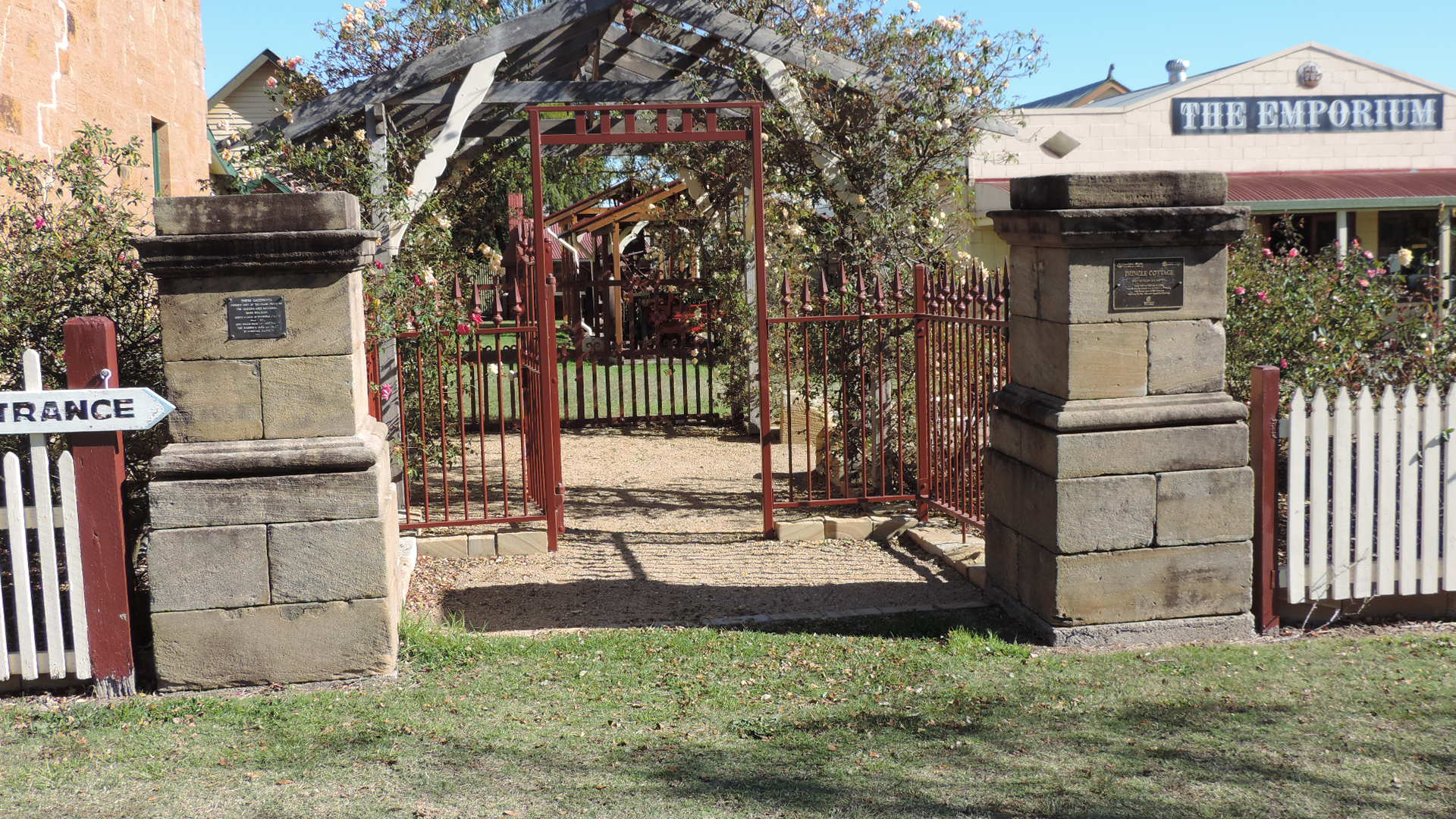 Entrance gates, Pringle Cottage Museum, Warwick, 2015 - the plaque on left states that the gates were part of the fence of the Queensland National Bank building in Palmerin Street, Warwick from 1883 to 1968, after which they were re-erected at the Pringle Cottage Museum